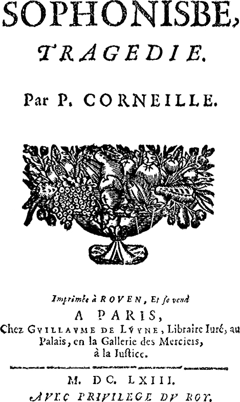 Title page from "Sophonisbe" (1663 edition), by Pierre Corneille (1606-1684)